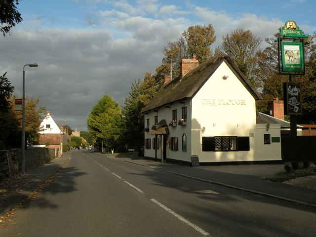 St. Peter's Street at Duxford You can just see the top of St. Peter's church in the distance.